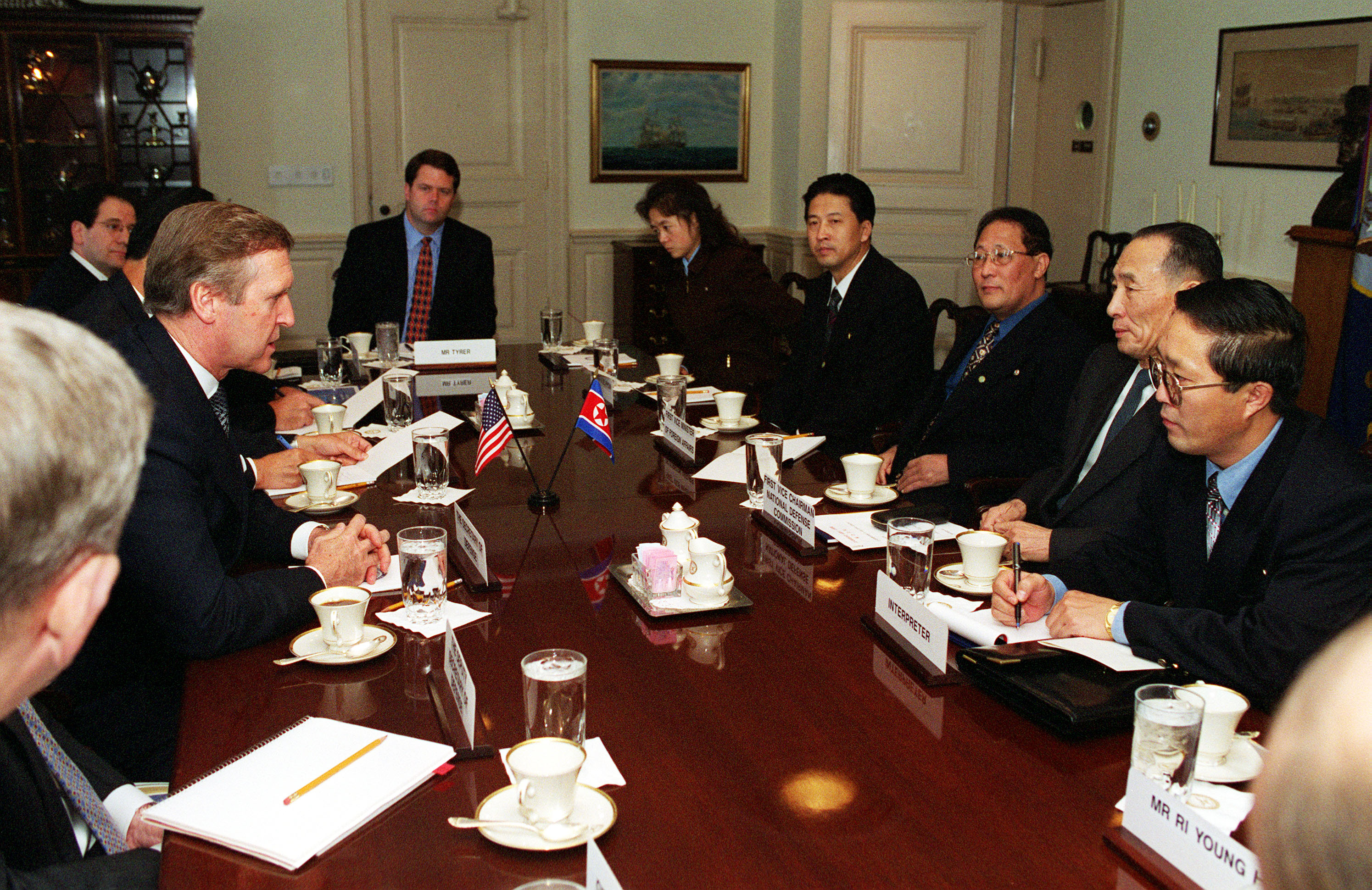 Secretary of Defense William S. Cohen (left) meets with National Defense Commission First Vice Chairman and Director General of the Political Bureau (directly across from Cohen), Jo Myong Rok, of the Korean People's Army, in the Pentagon on Oct. 11, 2000. Cohen and Rok are meeting to discuss a wide range of security issues. DoD photo by Helene C. Stikkel.